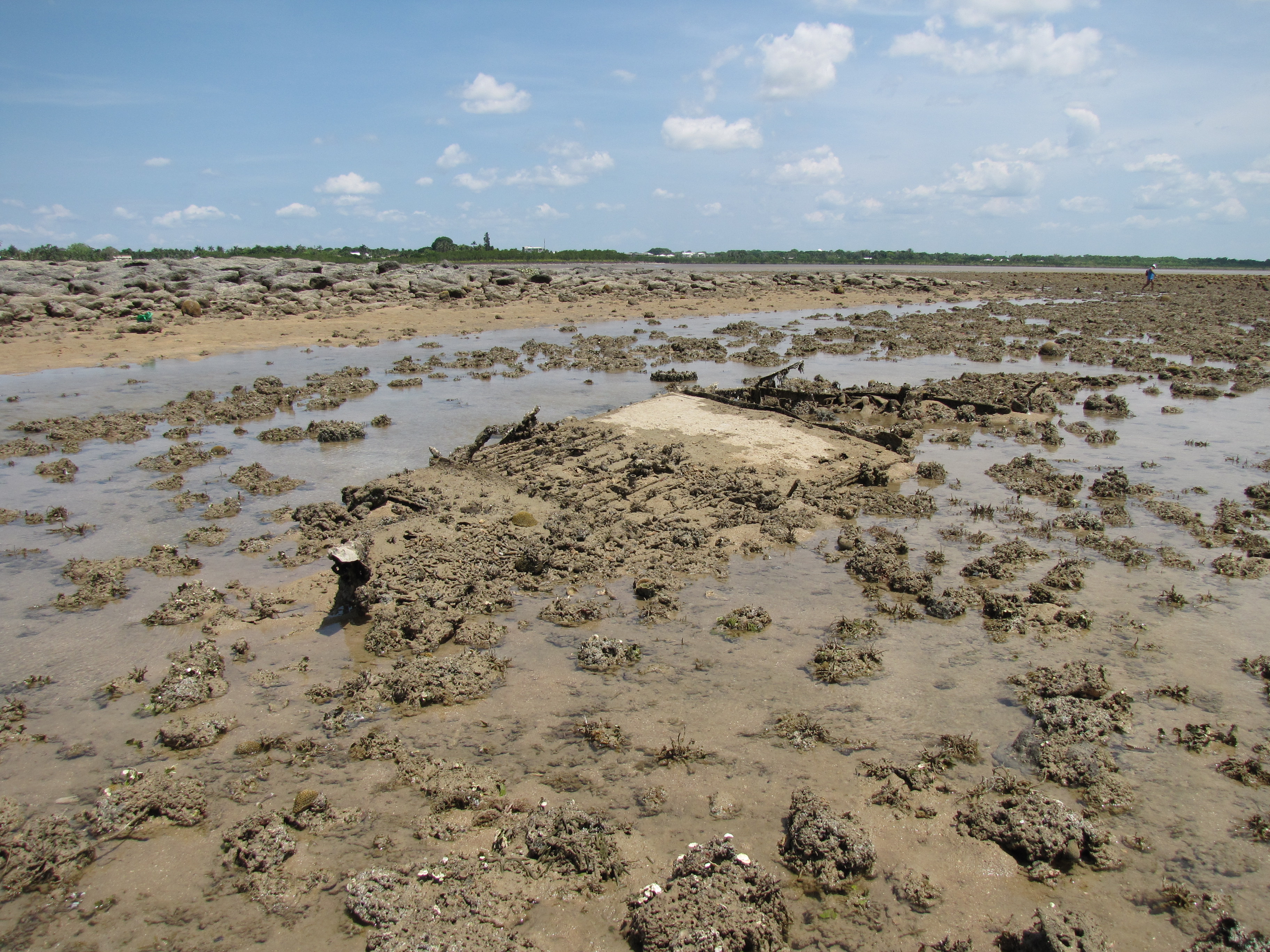 The remains of Dutch 18 Squadron B25 Mitchell N5-140 on the foreshore at Nightcliff. This aircraft had departed Darwin for Japanese occupied Timor early in the morning of 5 April 1943 but crashed shortly after takeoff with the loss of all five crew. The remnants consisting mostly of the main spar and engines are only visible during more extreme low tides.